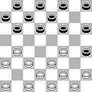 Position in draughts opening "Kosyak" in russian checkers